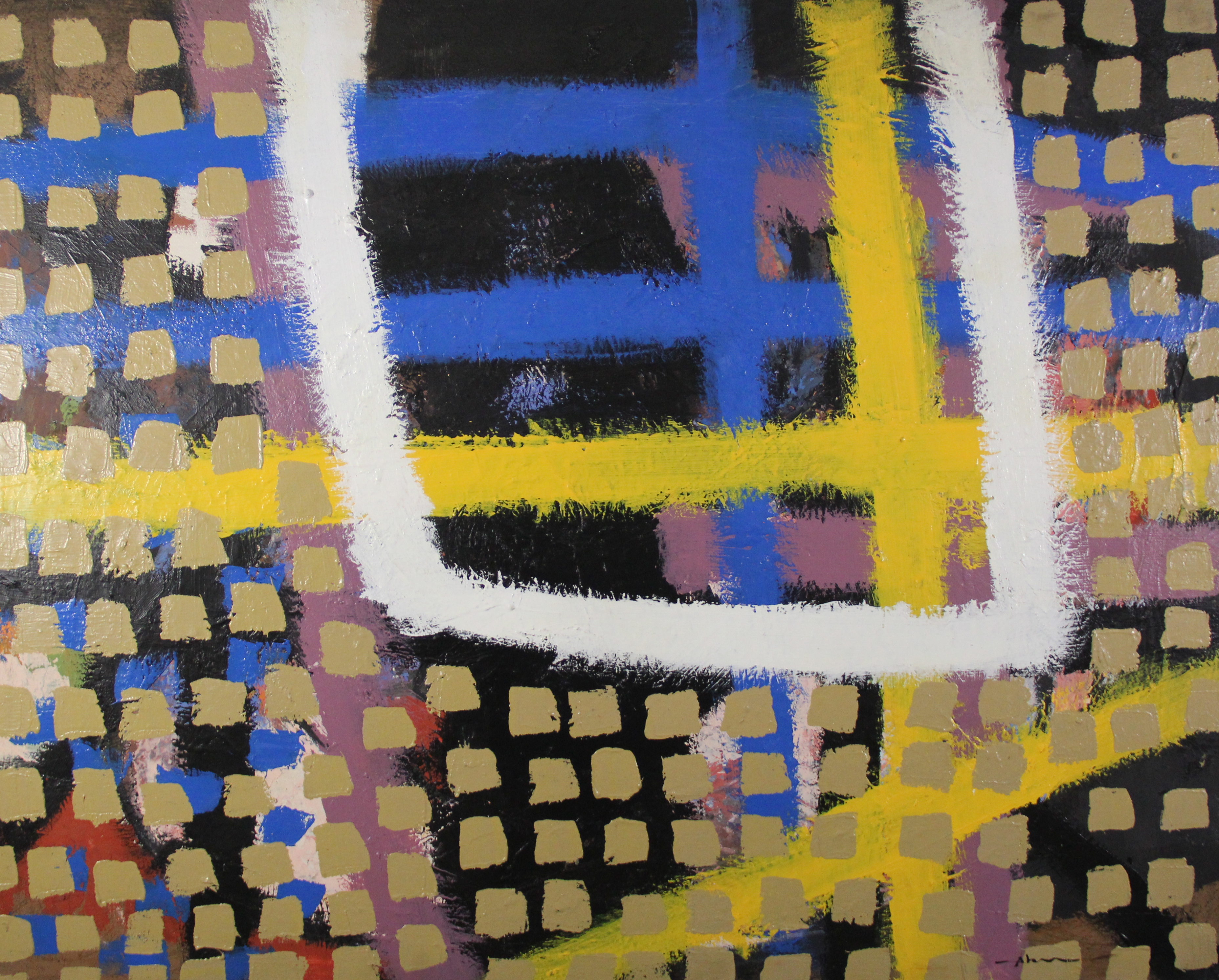 Estudio de la Estructura de la Memoria, Oscar Abreu